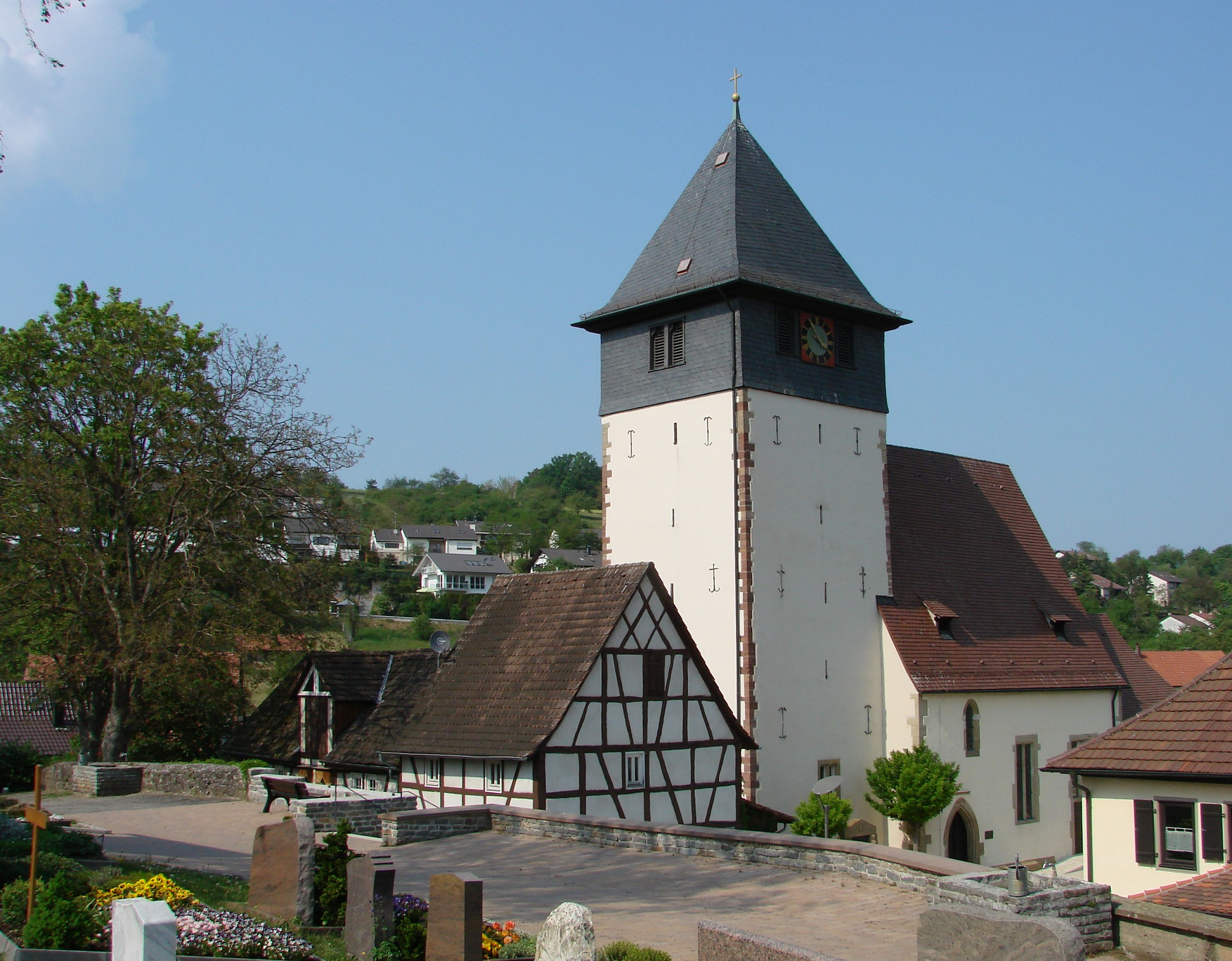 Wiernsheim, Lutheran church in the community village of Iptingen